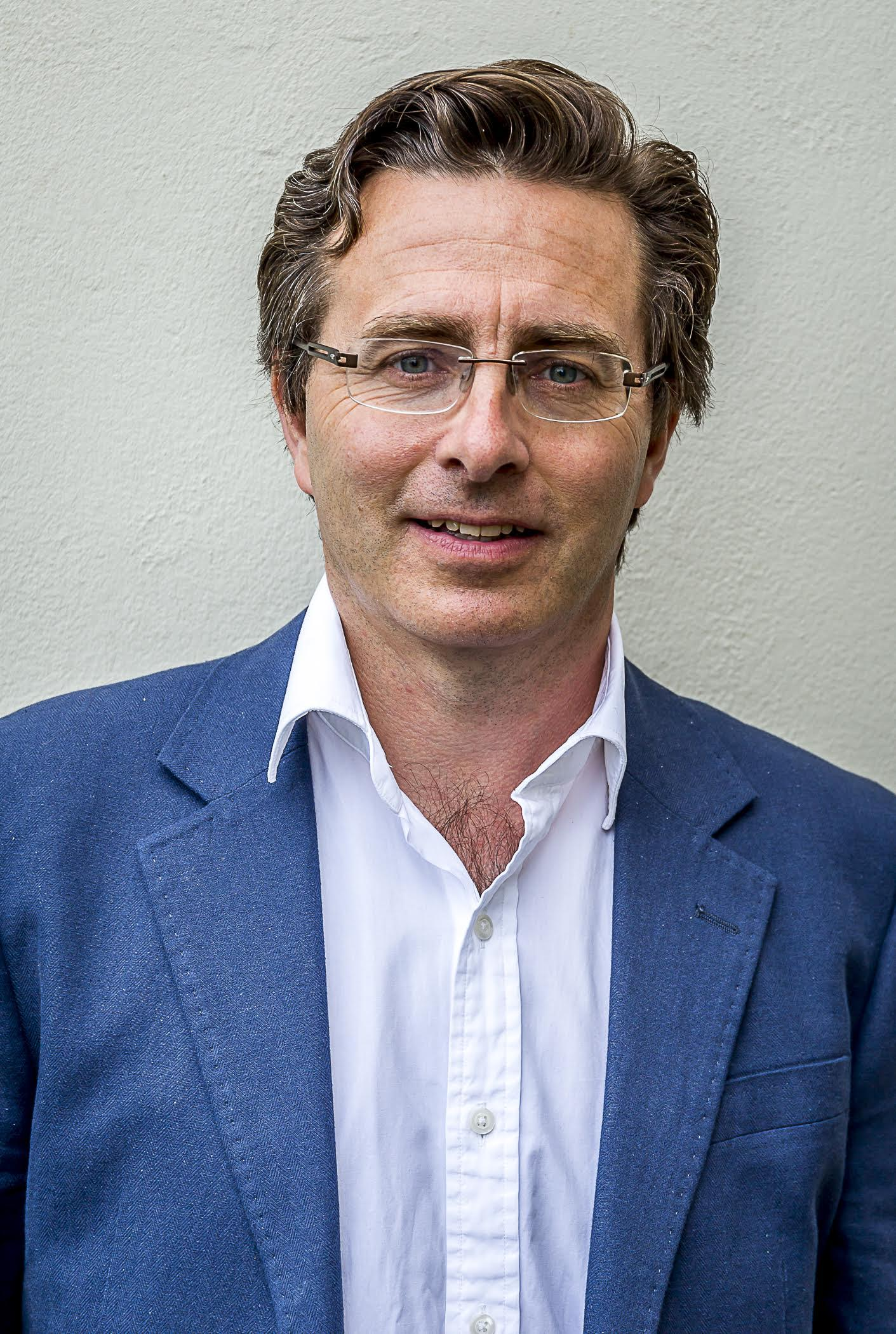 Photograph of British author Jon Stock